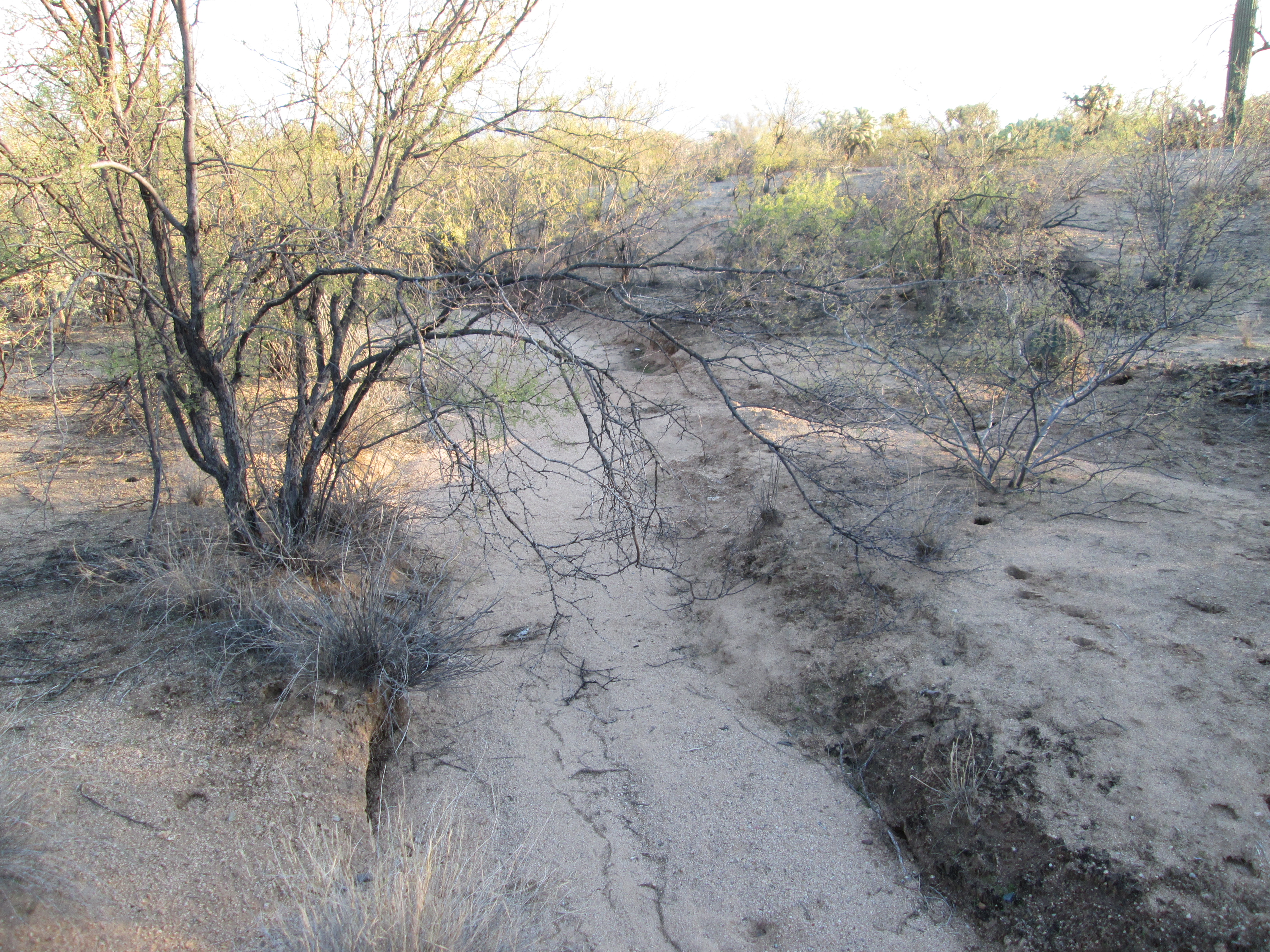 A little arroyo (wash) running through the Sonoran Desert in Sahuarita, Arizona.